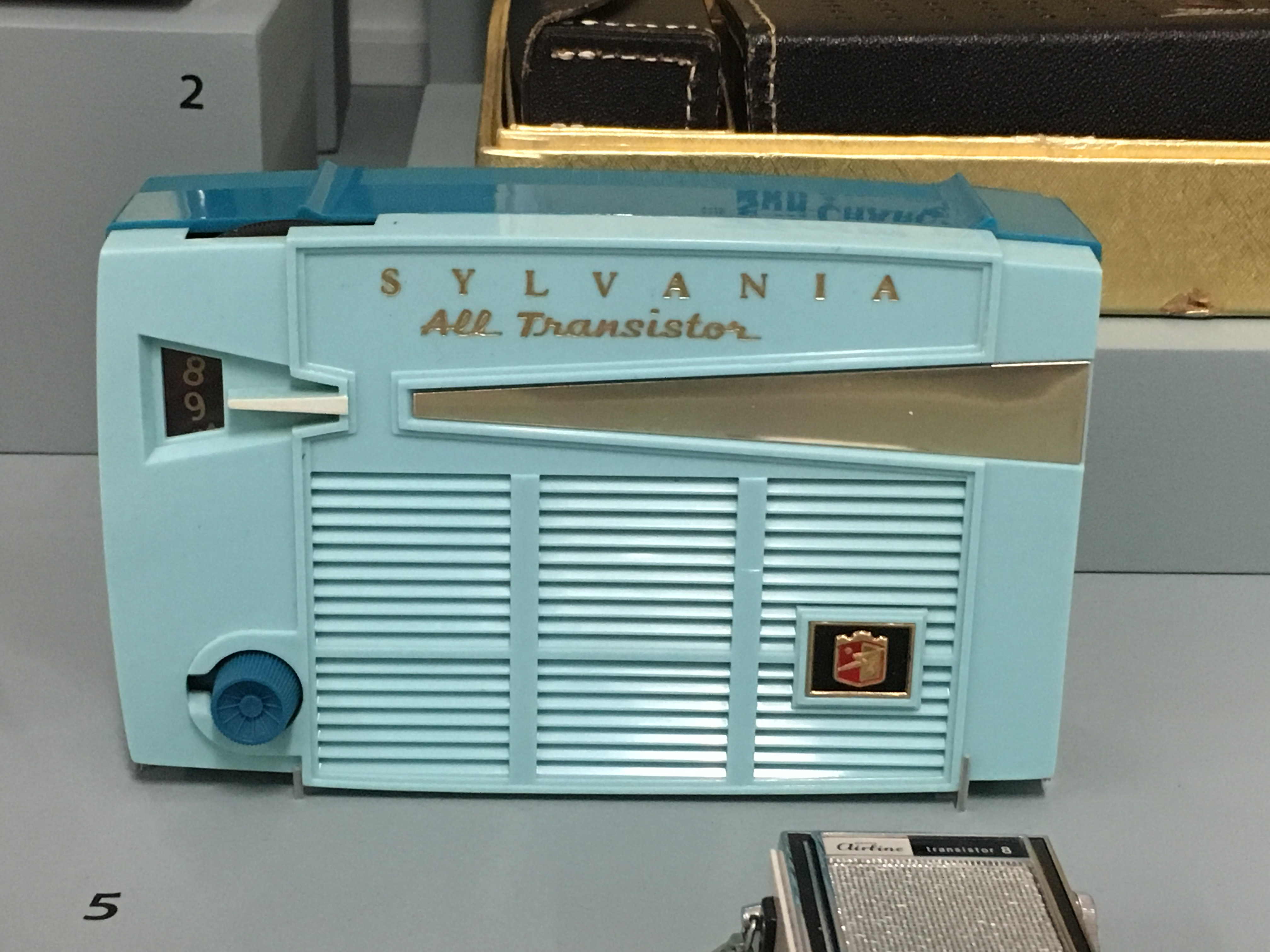 Sylvania Model 4P14 (1961) radio. Manufactured by Sylvania Electric Products, Inc in New York. Plastic. On display at SFO Museum "On The Radio" exhibition in 2018.